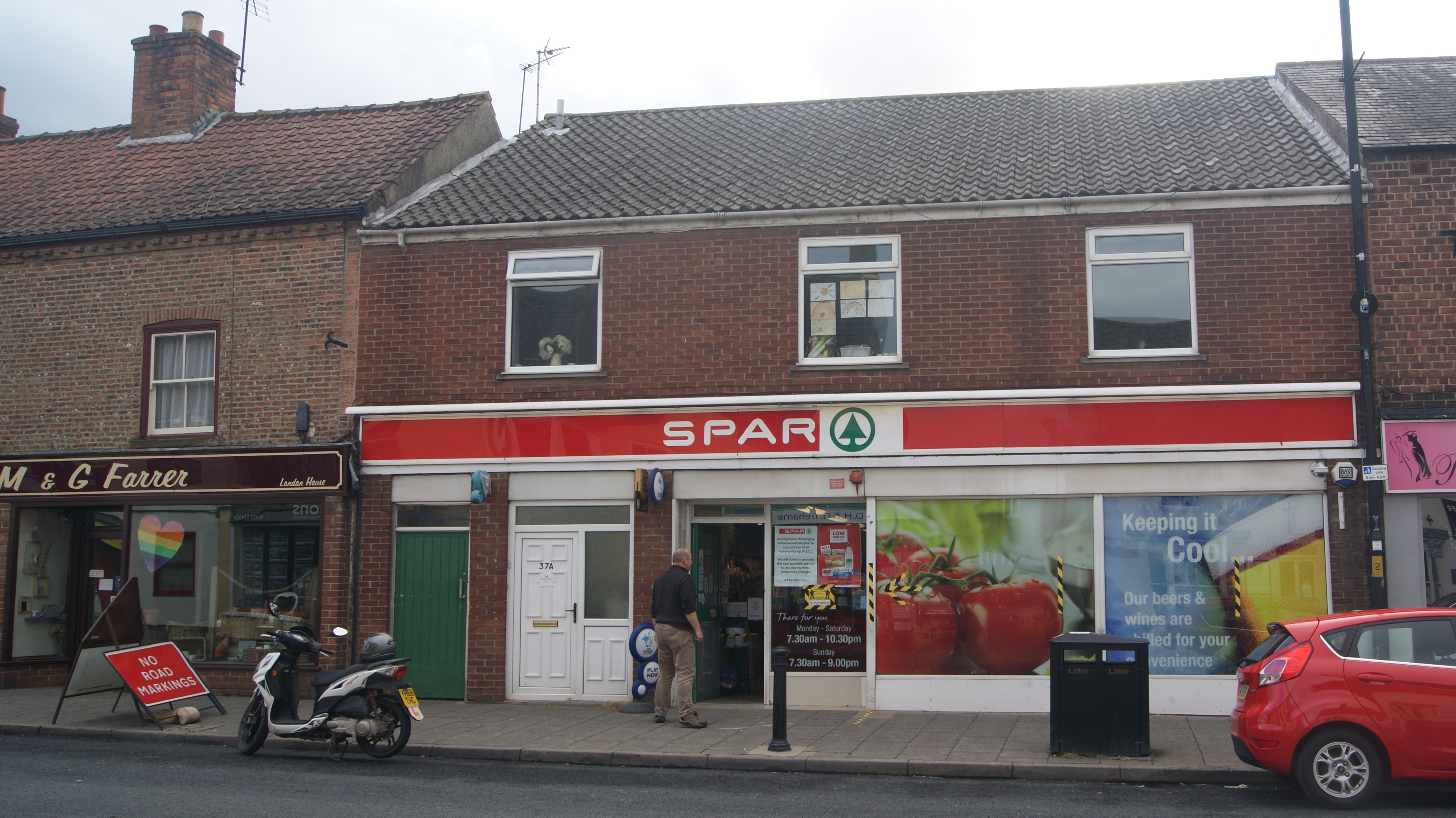 Spar, High Street, Boroughbridge, North Yorkshire. Taken on the afternoon of Sunday the 7th of June 2020.